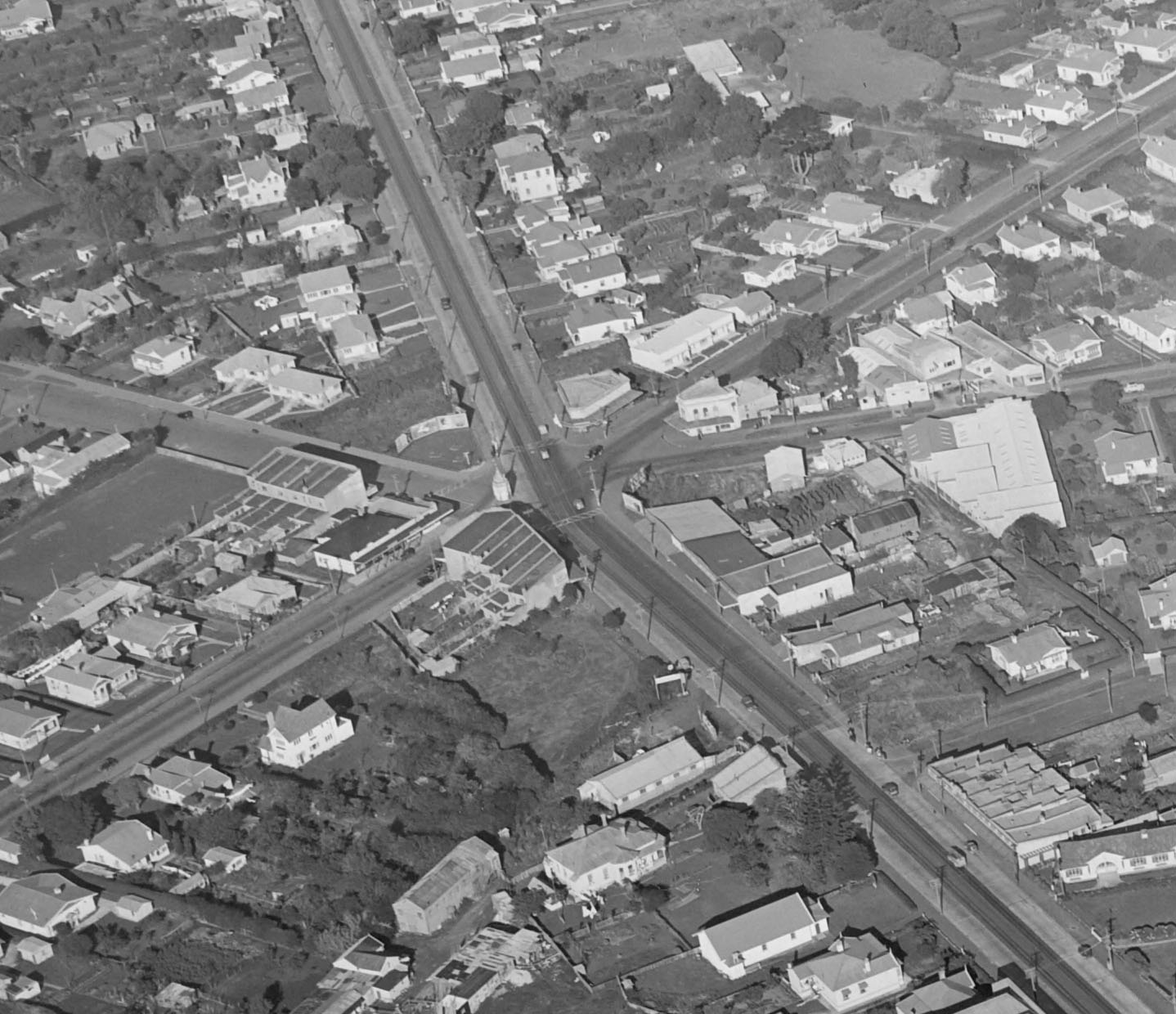 Royal Oak intersection with Manukau Road at the top. Original description: "One Tree Hill Borough Council area with One Tree Hill Domain and Manukau Road in foreground, looking to the suburb of Royal Oak, Auckland City. Whites Aviation Ltd :Photographs. Ref: WA-07603-G. Alexander Turnbull Library, Wellington, New Zealand.